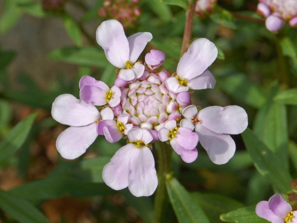 Iberis umbellata, Pratorondanino, Genova